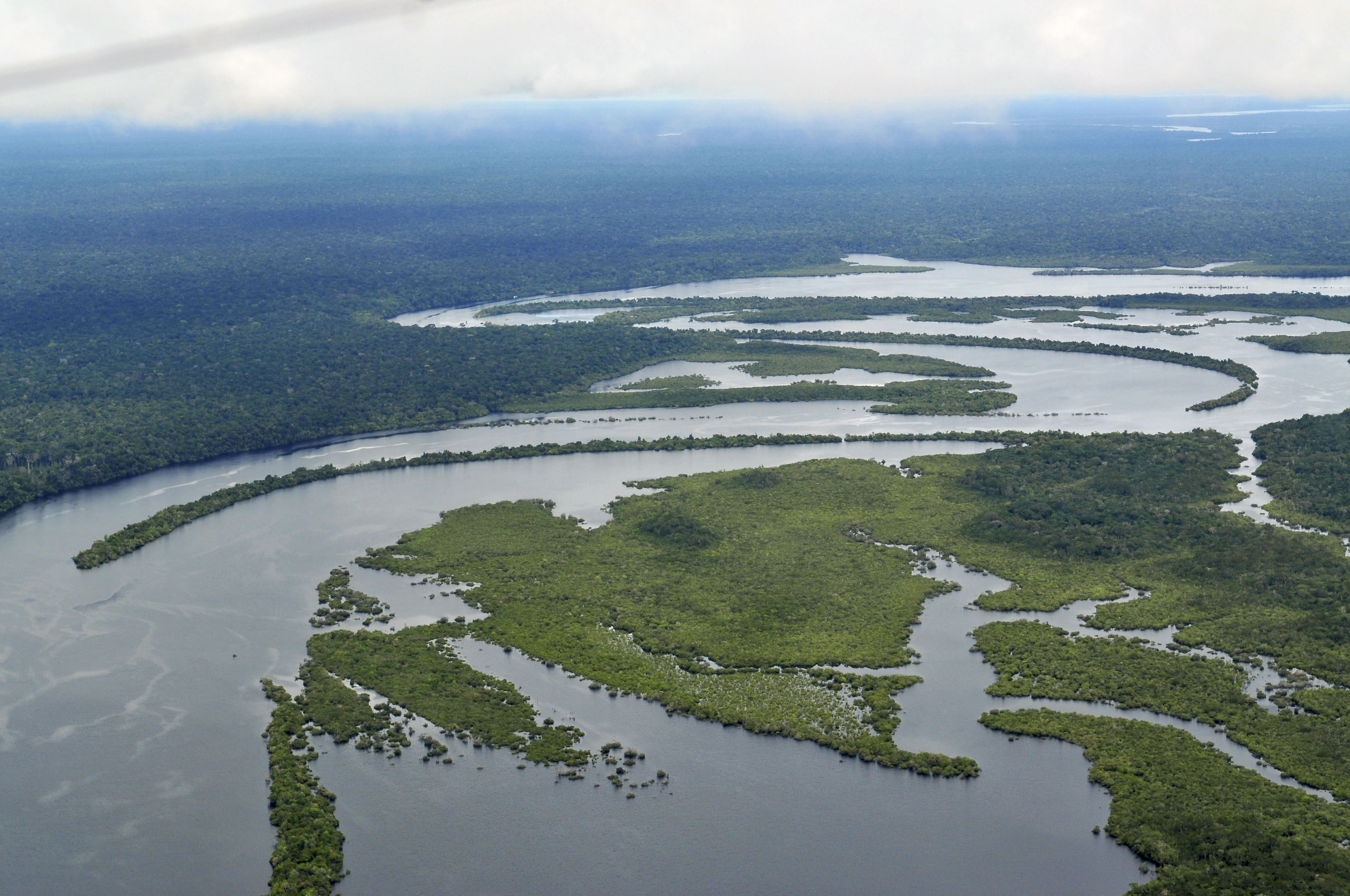 Pic by Neil Palmer (CIAT). Aerial view of the Amazon Rainforest, near Manaus, the capital of the Brazilian state of Amazonas.